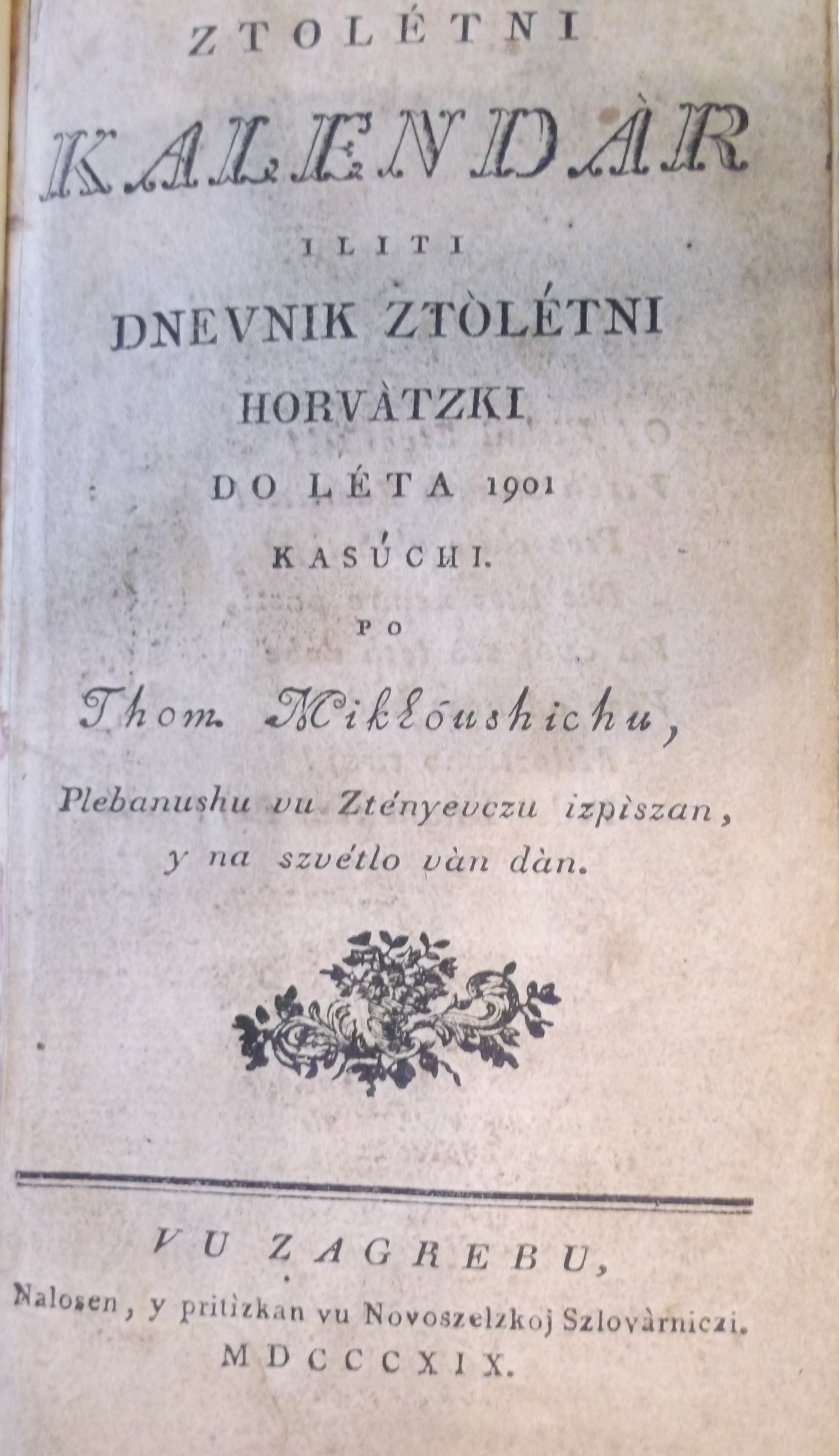 Ztolétni kalendàr (Calendar for Hundred years) of Tomaš Mikloušić in Kajkavian Croatian language (kajkavski) from 1819